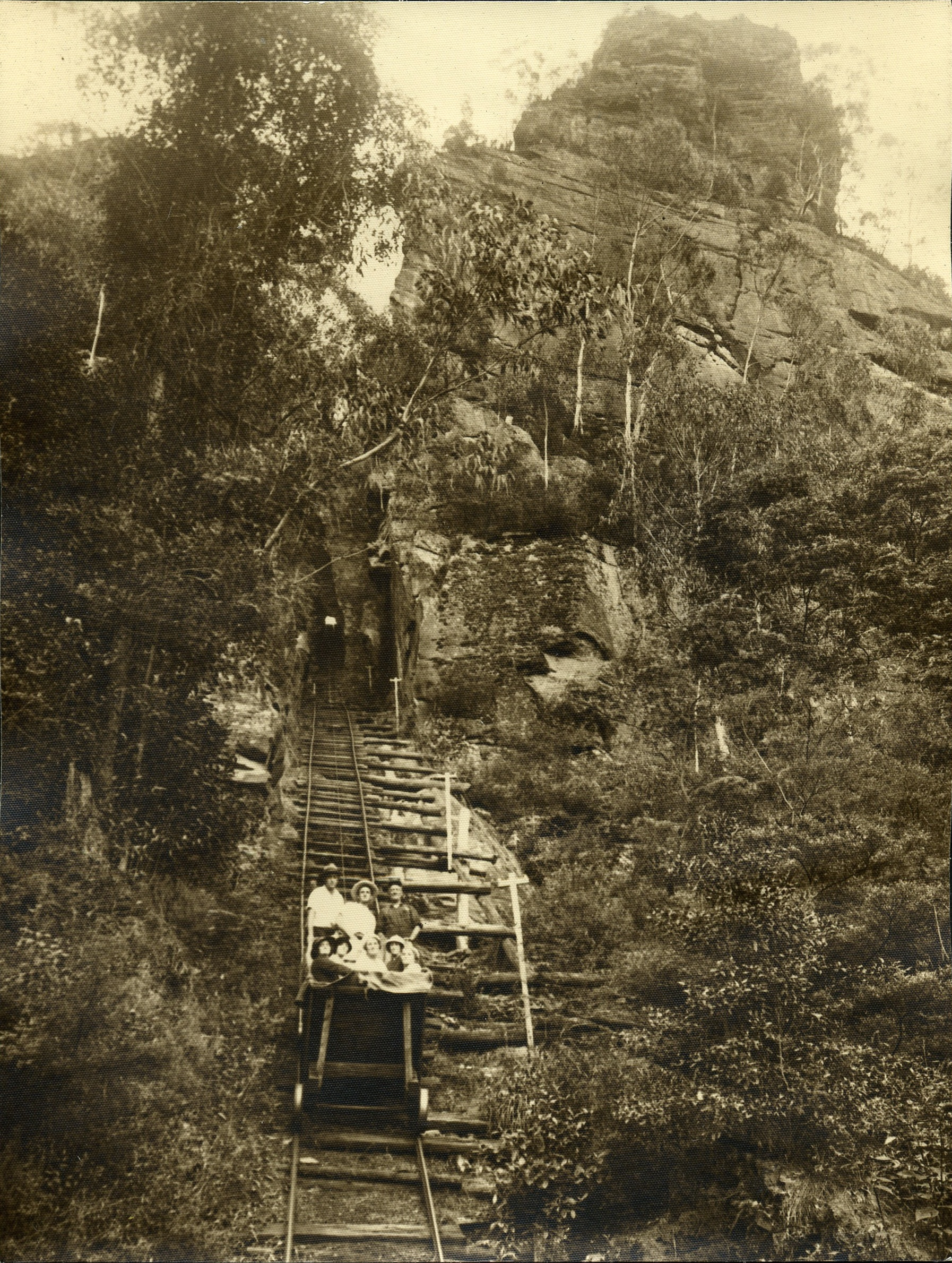 From an album of Harry Phillips photos presented to Frederick John (Jack) Spellacy (1901-1995) dated 12 April 1935. Format: B&W photograph Repository: Blue Mountains City Library Part of: Local Studies Collection Provenance: Spellacy Family